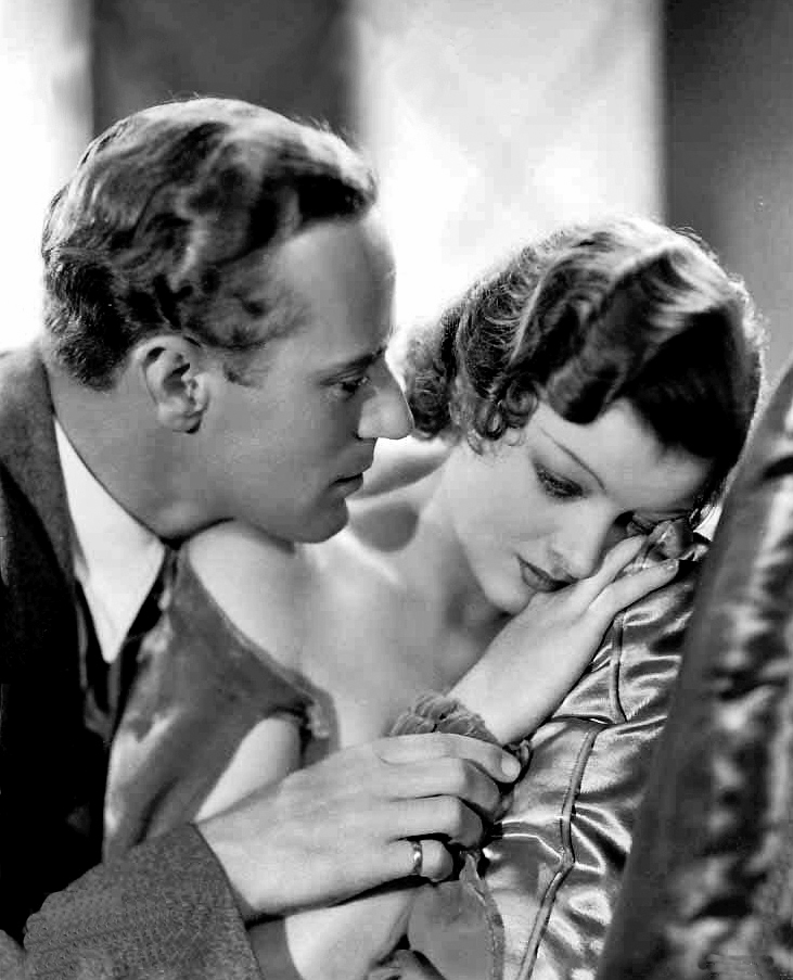 Publicity photo of Leslie Howard and Myrna Loy in film The Animal Kingdom (1932). See also, film still